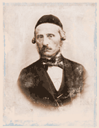 Eliezer Lippmann Zilbermann, first editor of "Ha'Magid"